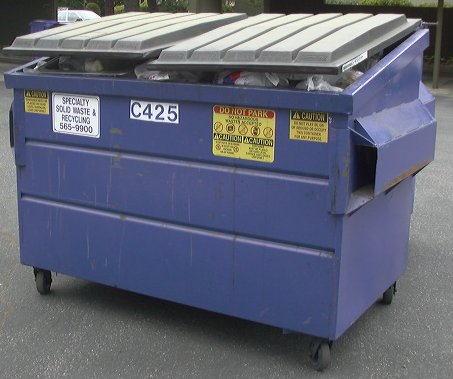 A typical dumpster in Sunnyvale, California.